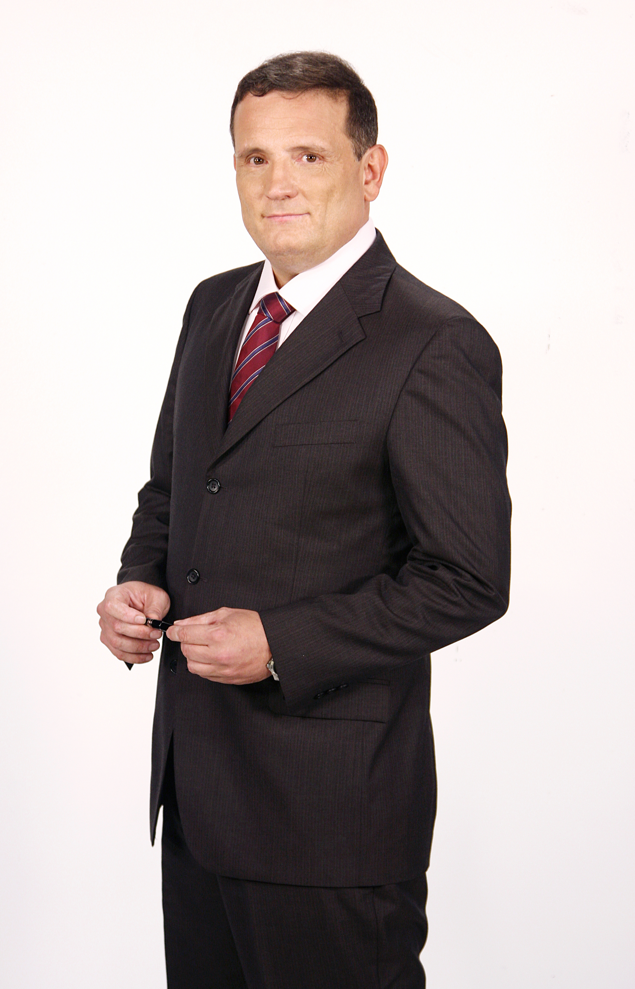 Roberto Cabrini - Reporter